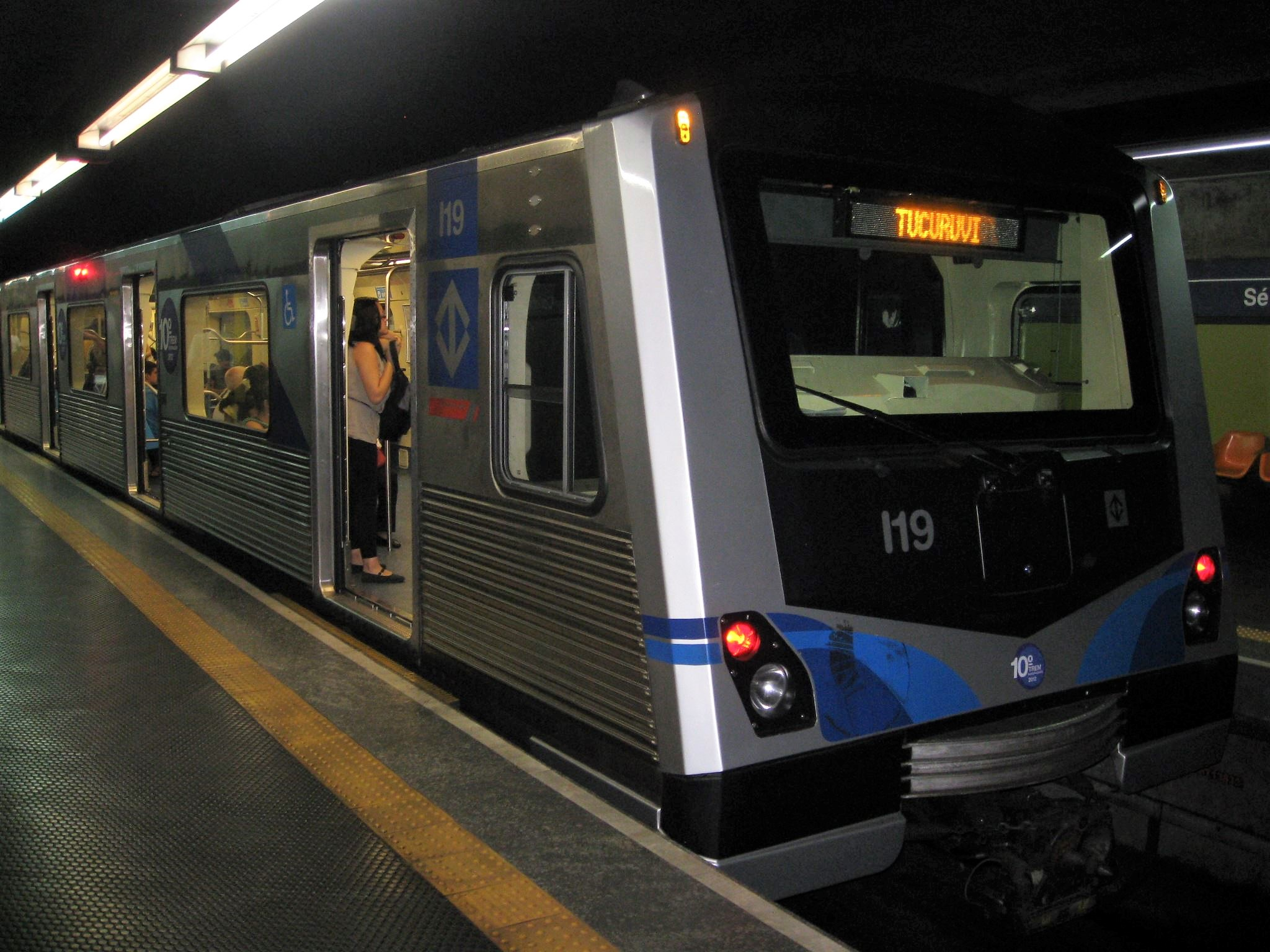 Series I of Metro Sao Paulo.